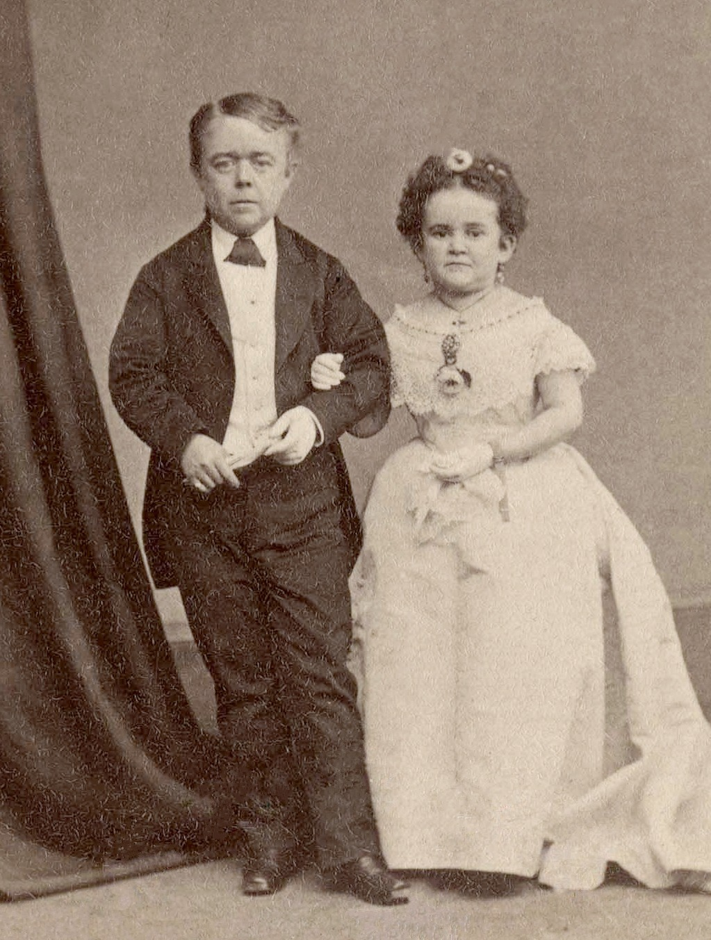 George Washington Morrison Nutt and Minnie Warren, midgets who were often paired in P. T. Barnum's shows, are posed here in wedding attire.